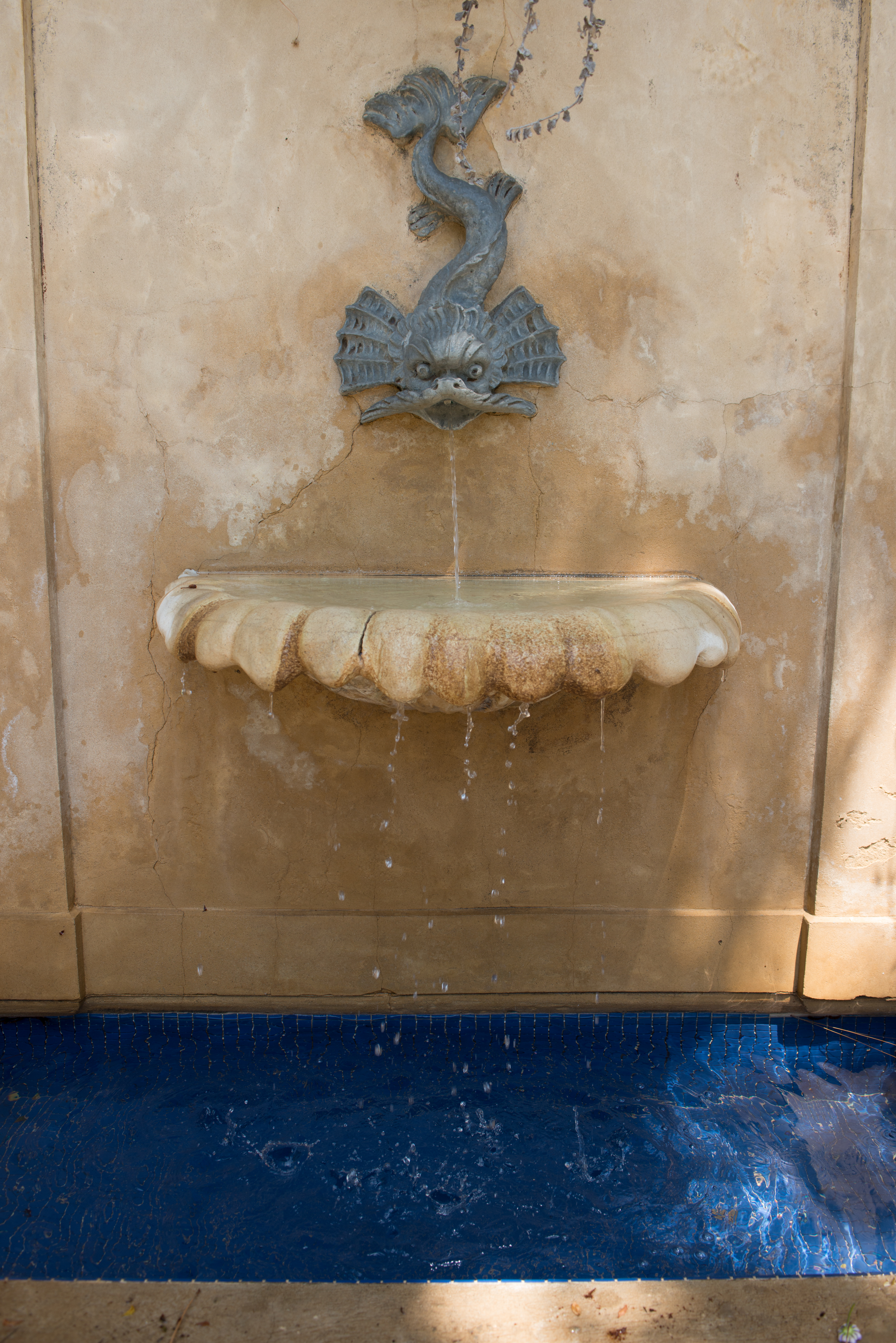 Fountain at the George Marston House, San Diego, California